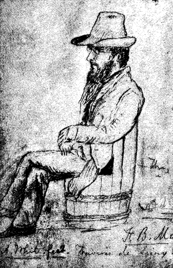 Cropped drawing of genre artist Frank Blackwell Mayer, sketched at Traverse des Sioux, Minnesota Territory